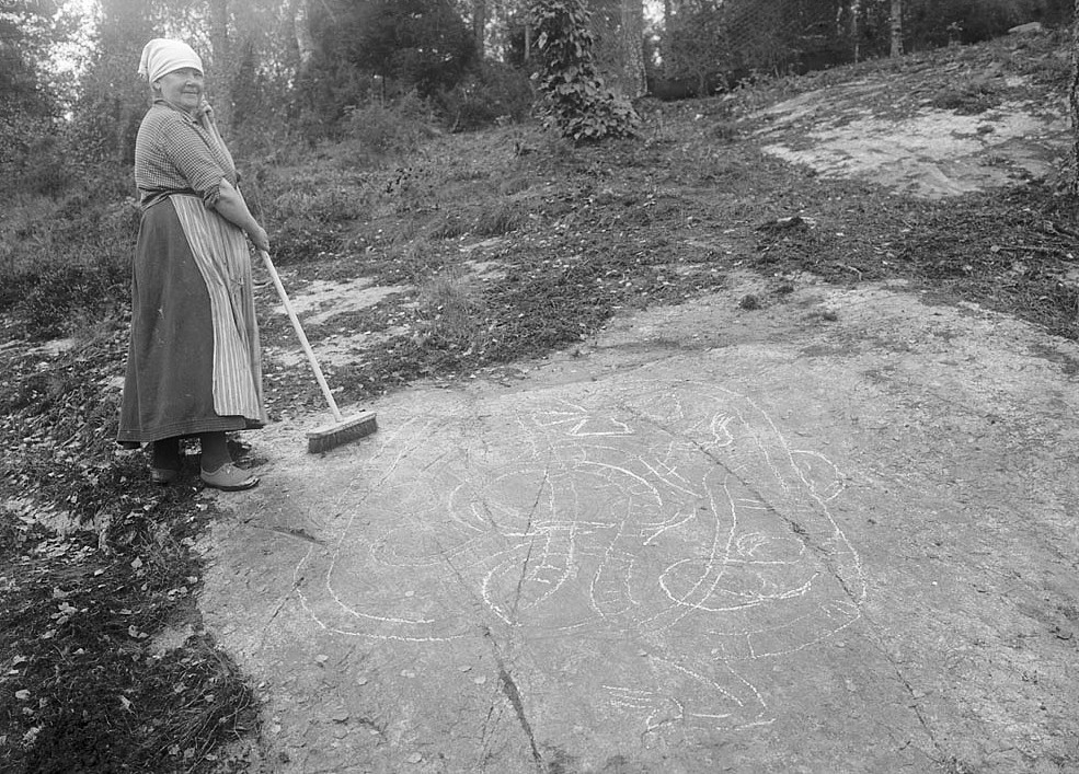 Woman sweeping a flat piece of rock with a runic inscription (U 102). It's situated in Viby north of Stockholm. The inscription says: "Kale had this rock carved in memory of his two sons, and he and Ingetora made a bridge, a great memorial before many men".